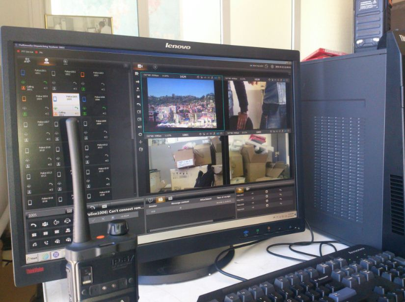 HD surveillance system by Huawei Technologies